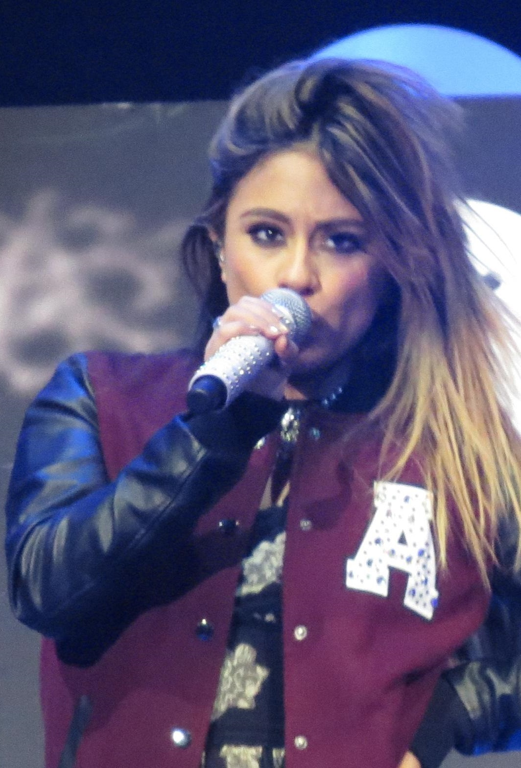 Cropped Version of File:93.3 FLZ Jingle Ball Tampa Florida IMG 6299 (11490093585).jpg Ally Brooke singing with Fifth Harmony live at 93.3 FLZ Jingle Ball Tampa Florida